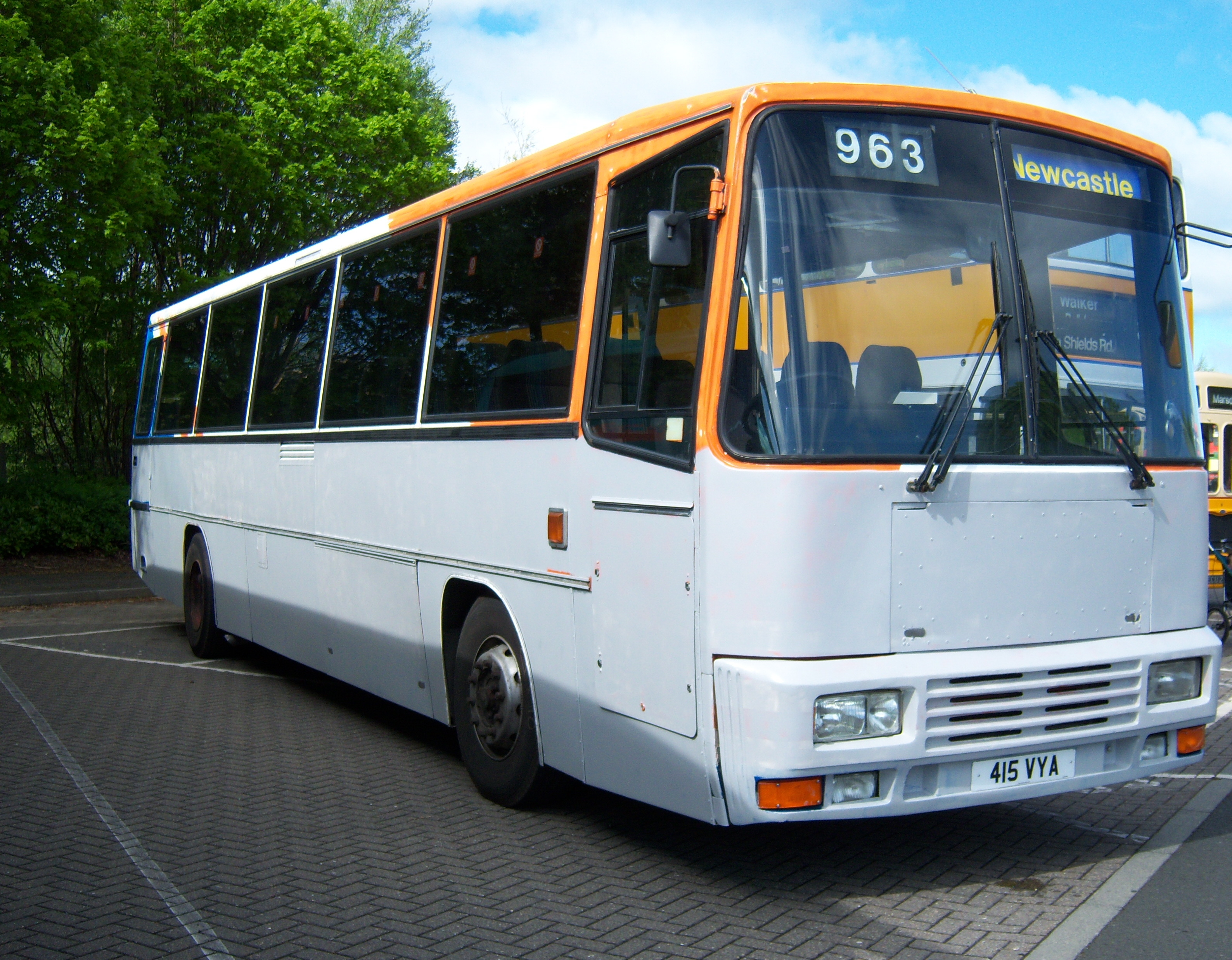 Preserved bus on display at the 2009 Metrocentre bus rally.